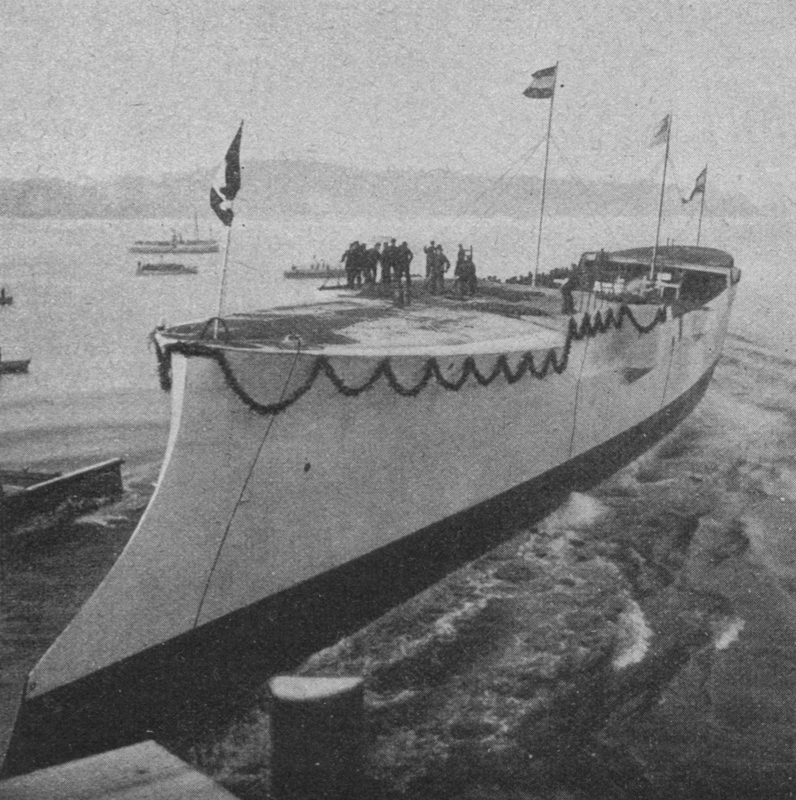 The launching of the German cruiser SMS Undine.